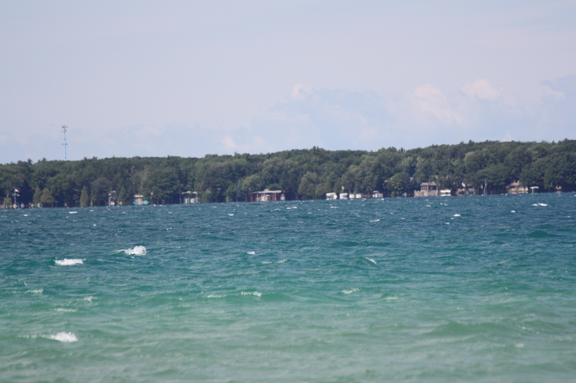 Looking from the shore of Glen Lake in Michigan.